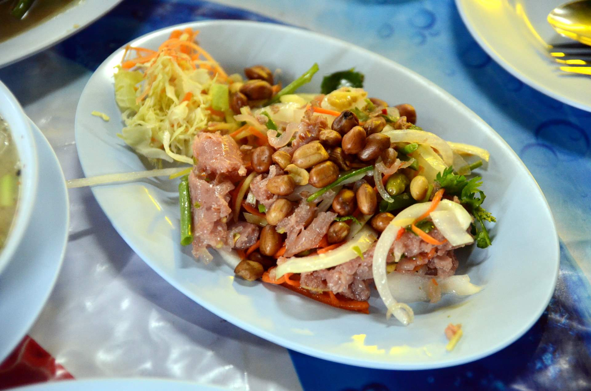 Yam naem (Thai script: ยามแหนม) is a Thai salad (yam) containing sausage made from fermented raw pork and sticky rice (naem). This dish was served at a restaurant in Chiang Mai which specialises in rice gruel (khao tom kui; Thai script: ข้าวต้มกุ๊ย) served with accompanying dishes.